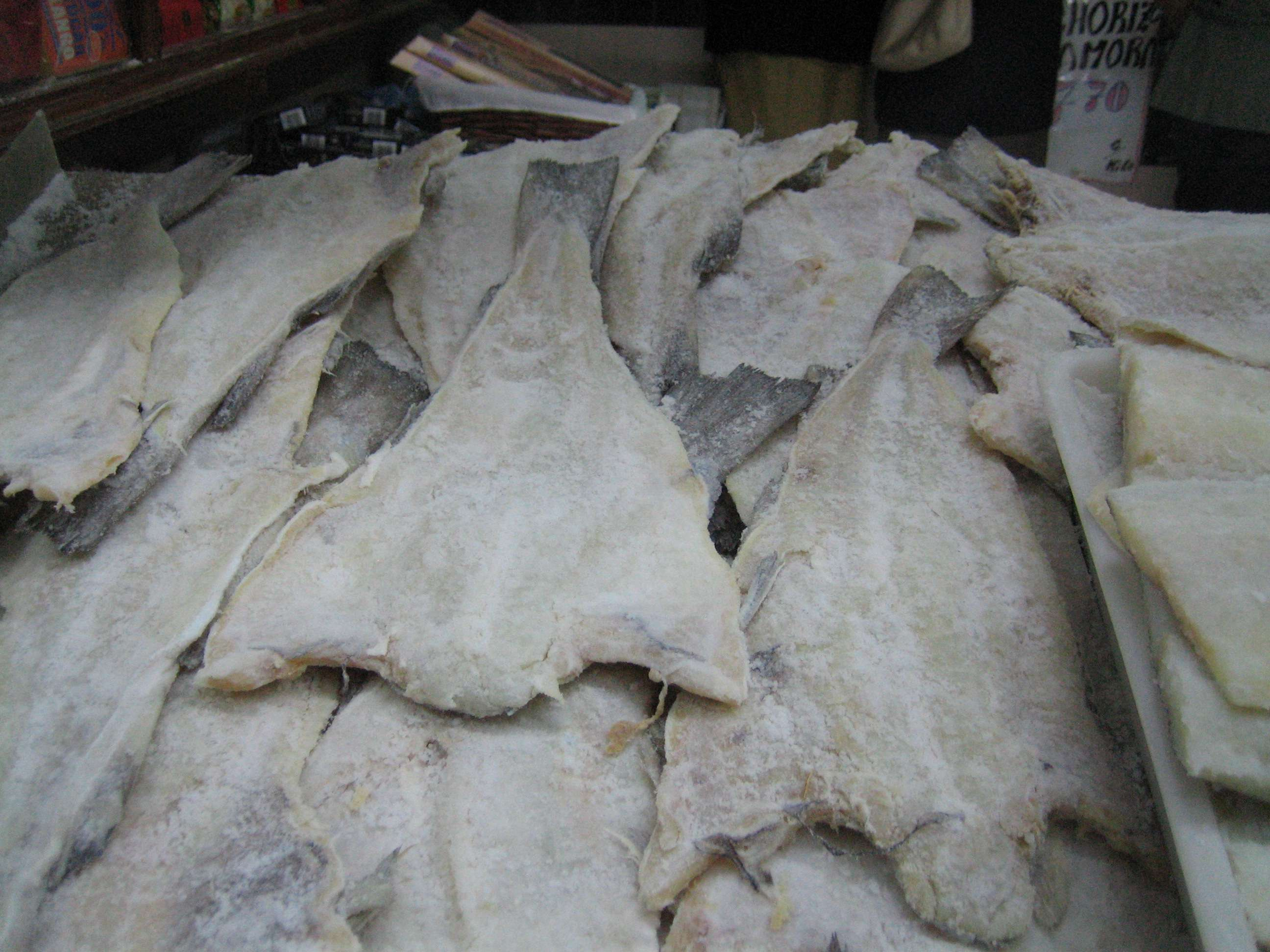 Bacalao in a display